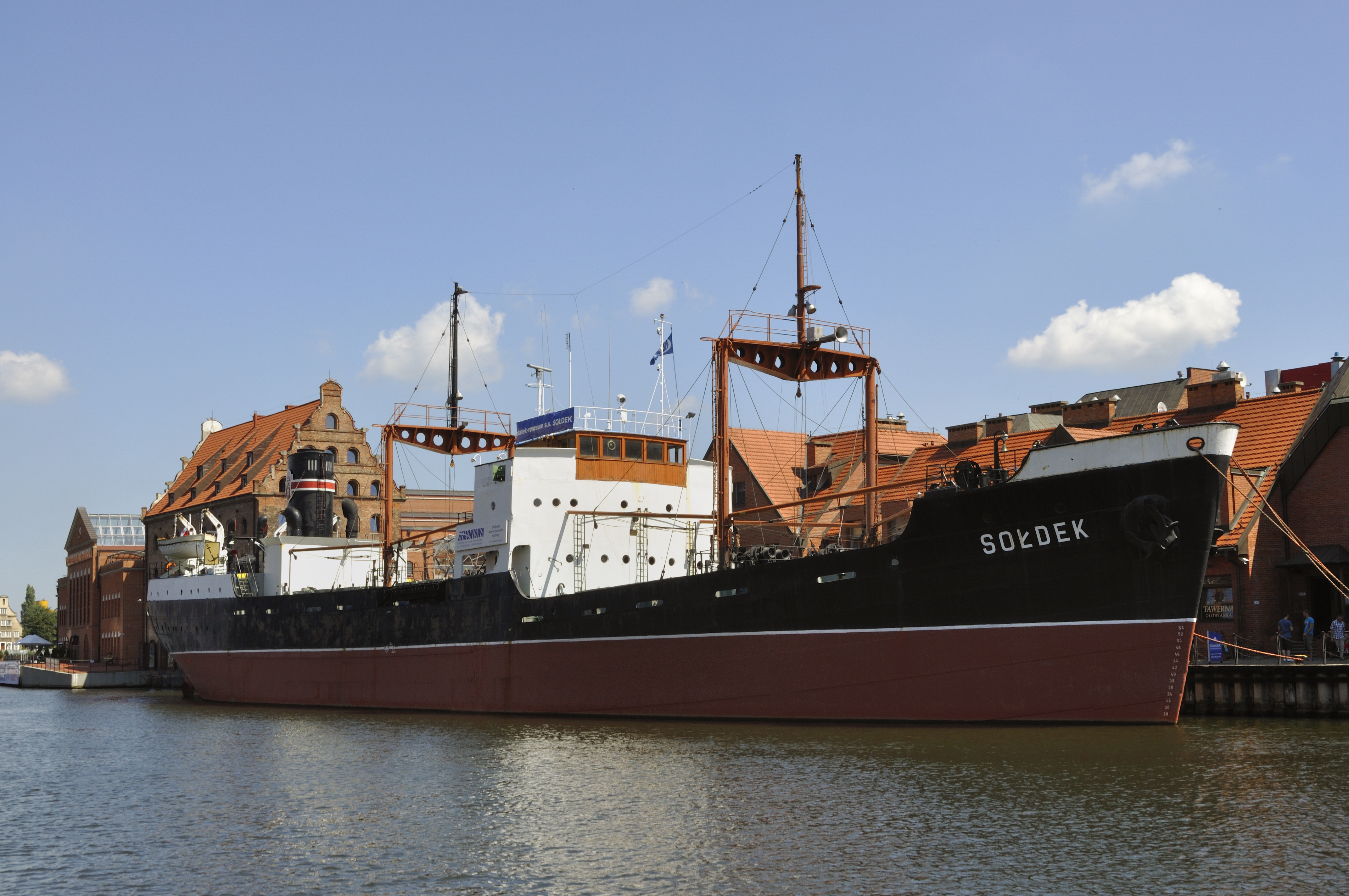 Picture taken in Gdańsk after Wikimania 2010 conference. SS Sołdek.